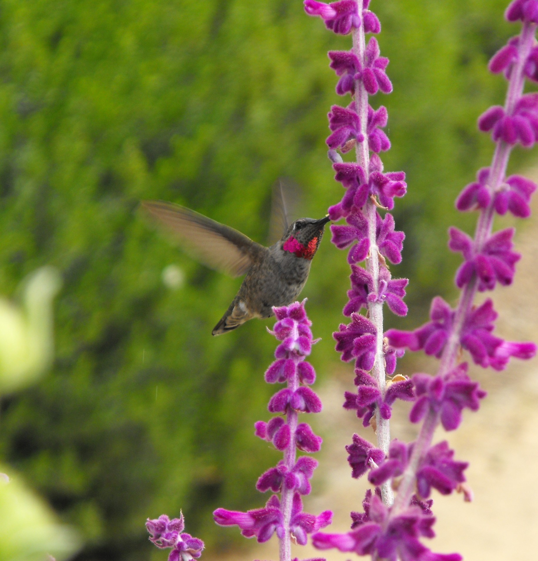 Anna's Hummingbird Calypte anna feeding at Salvia leucantha in the Water Conservation Garden at Cuyamaca College in El Cajon, California, USA. Plant identified by sign.